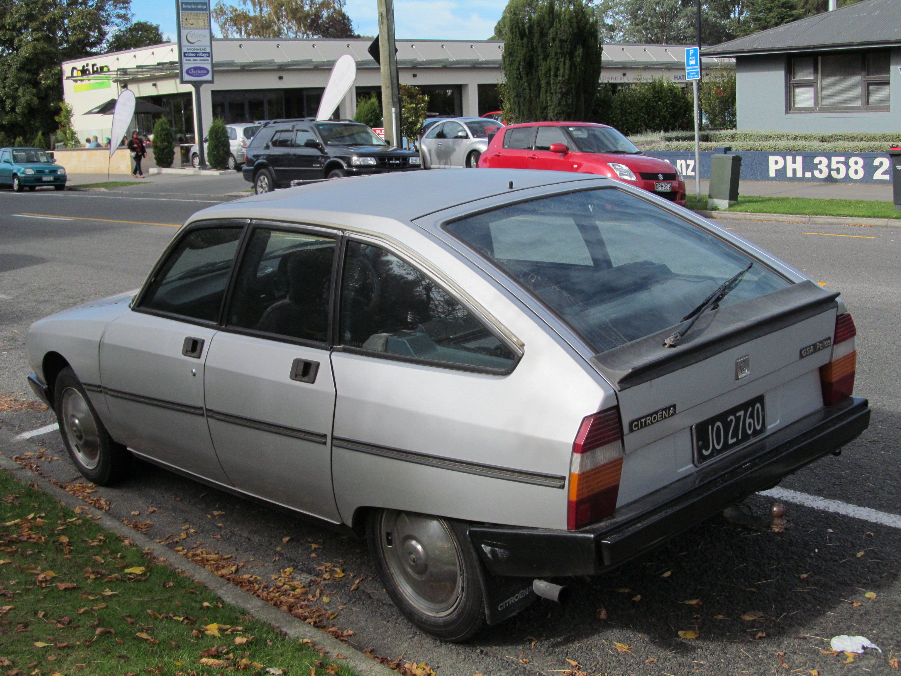 JO2760 This looks far better with the black bumpers than the body-coloured ones some GSAs had. Those door handles are very cool!